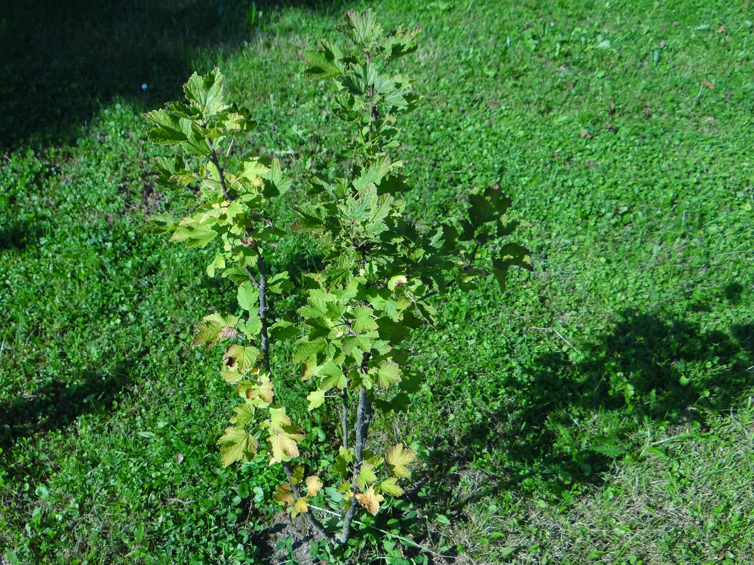 Drepanopeziza ribis on Ribes sp.(location: Poland)